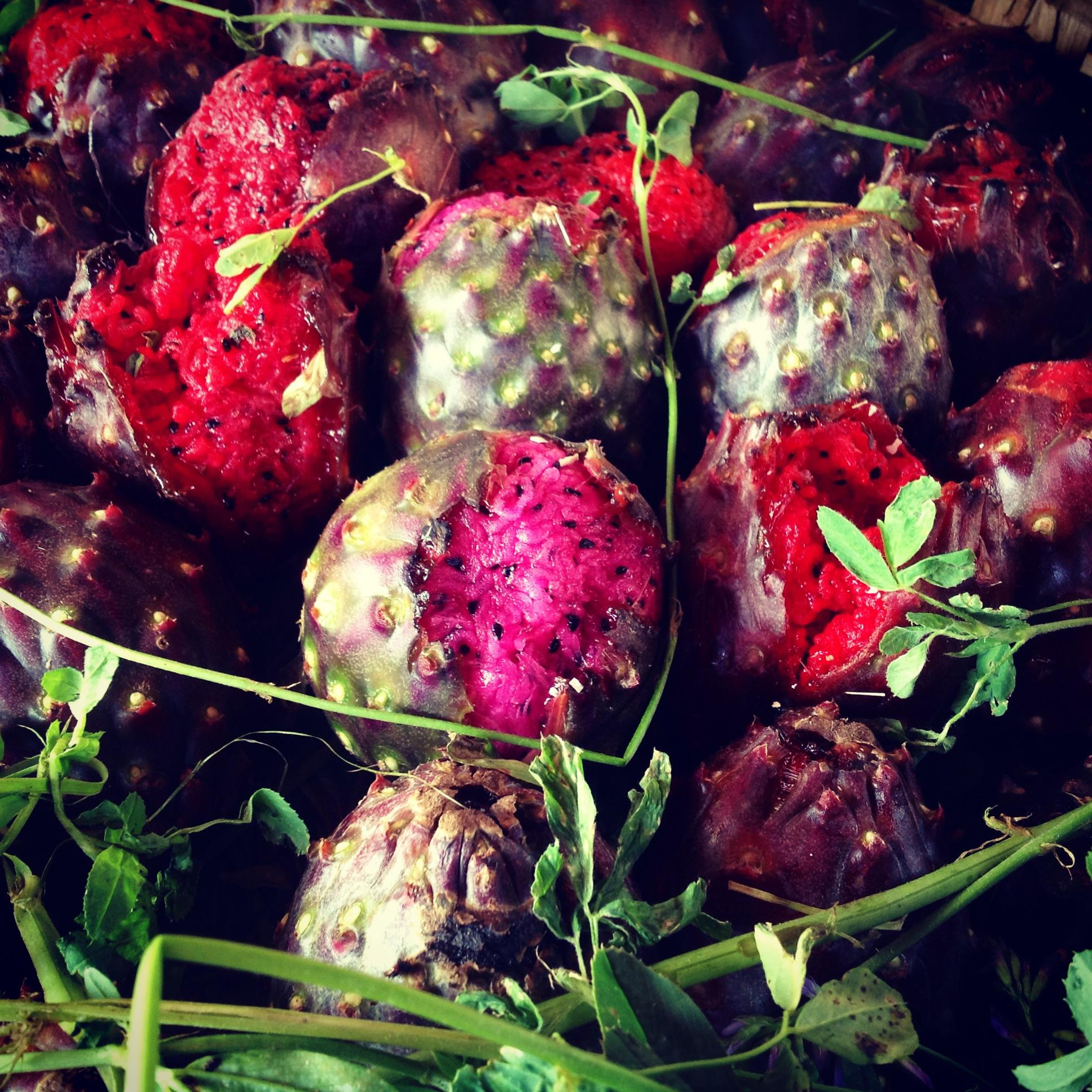 frutas tipicas de techaluta se dan en el mes de mayo y junio